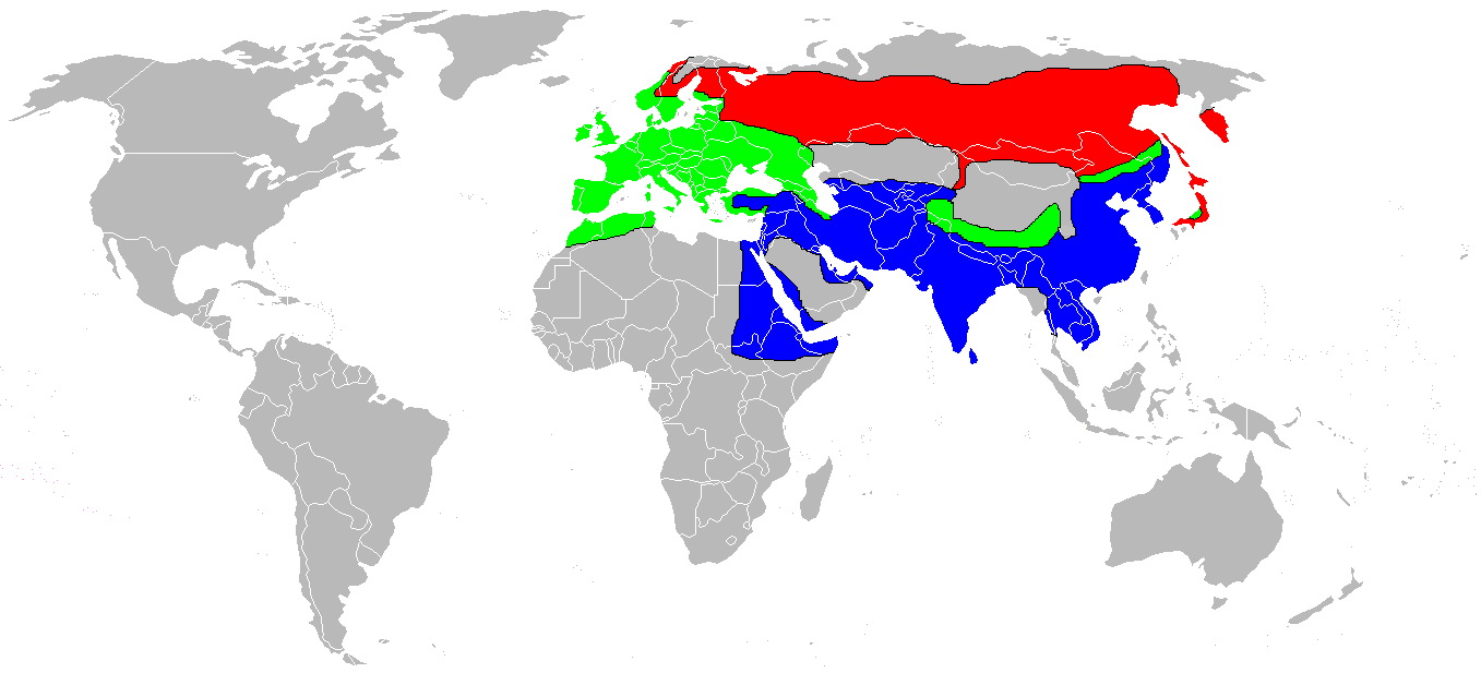 Area of Eurasian Sparrowhawk (Accipiter nisus), Made by R. Altenkamp (User Accipiter)